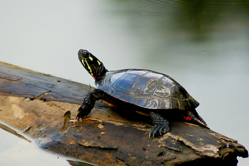 This seems to be an eastern painted turltle, but maybe not. Anyway, it's a turtle I found when marching around Crowder's Mountain State Park today. Most of the shoot got rained out though.